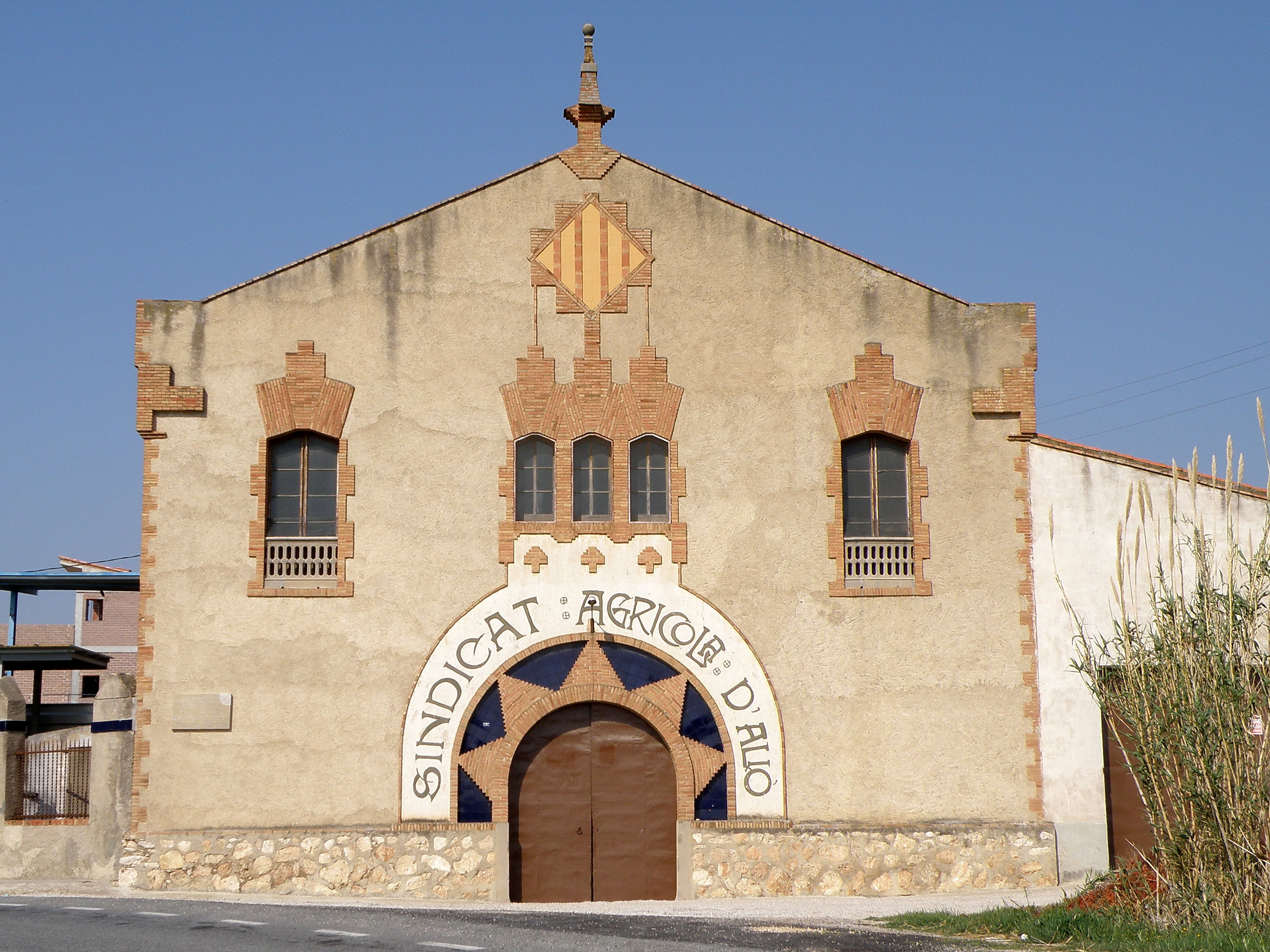 Cooperative building of agriculture in Alió (Tarragona)